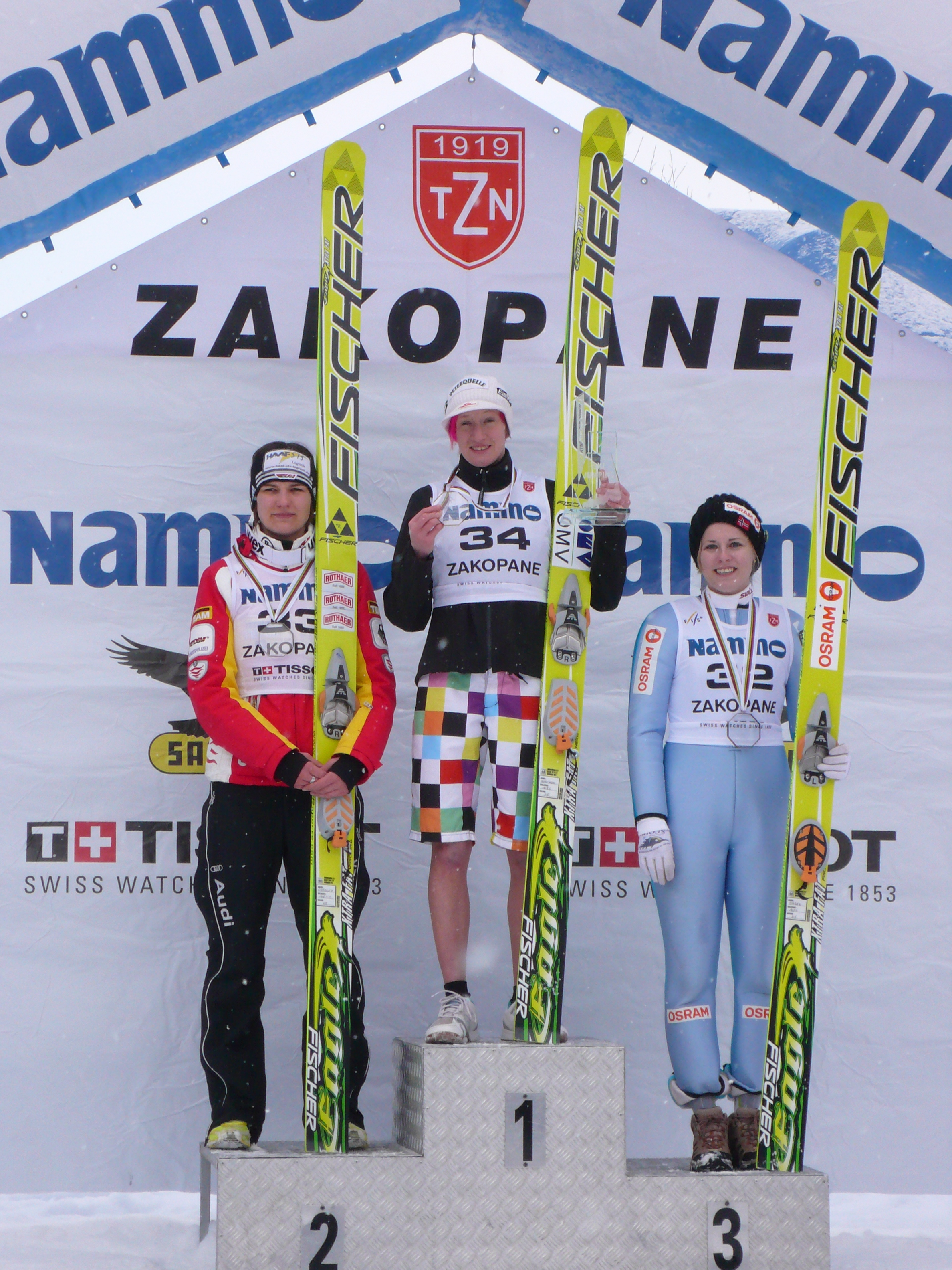 Final podium of the 2009-2010 Ski jumping Continental Cup : 1st: Daniela Iraschko 2nd: Ulrike Graessler 3rd: Anette Sagen